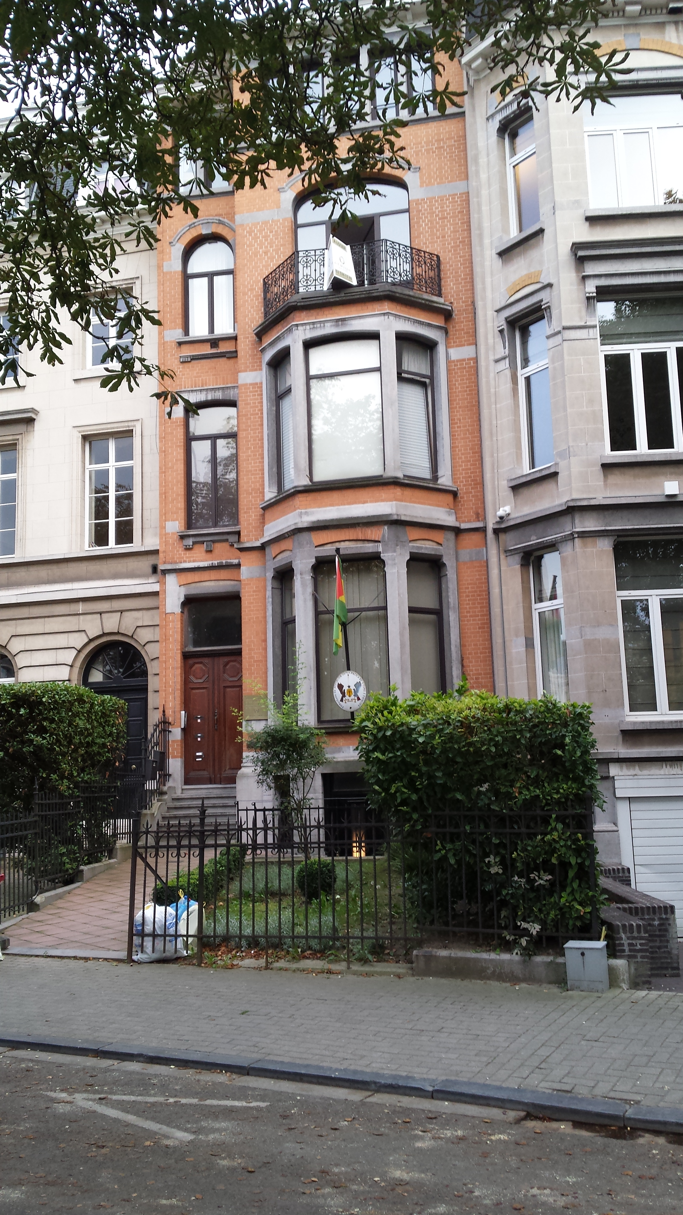 Embassy of the Democratic Republic of São Tomé and Príncipe in Brussels